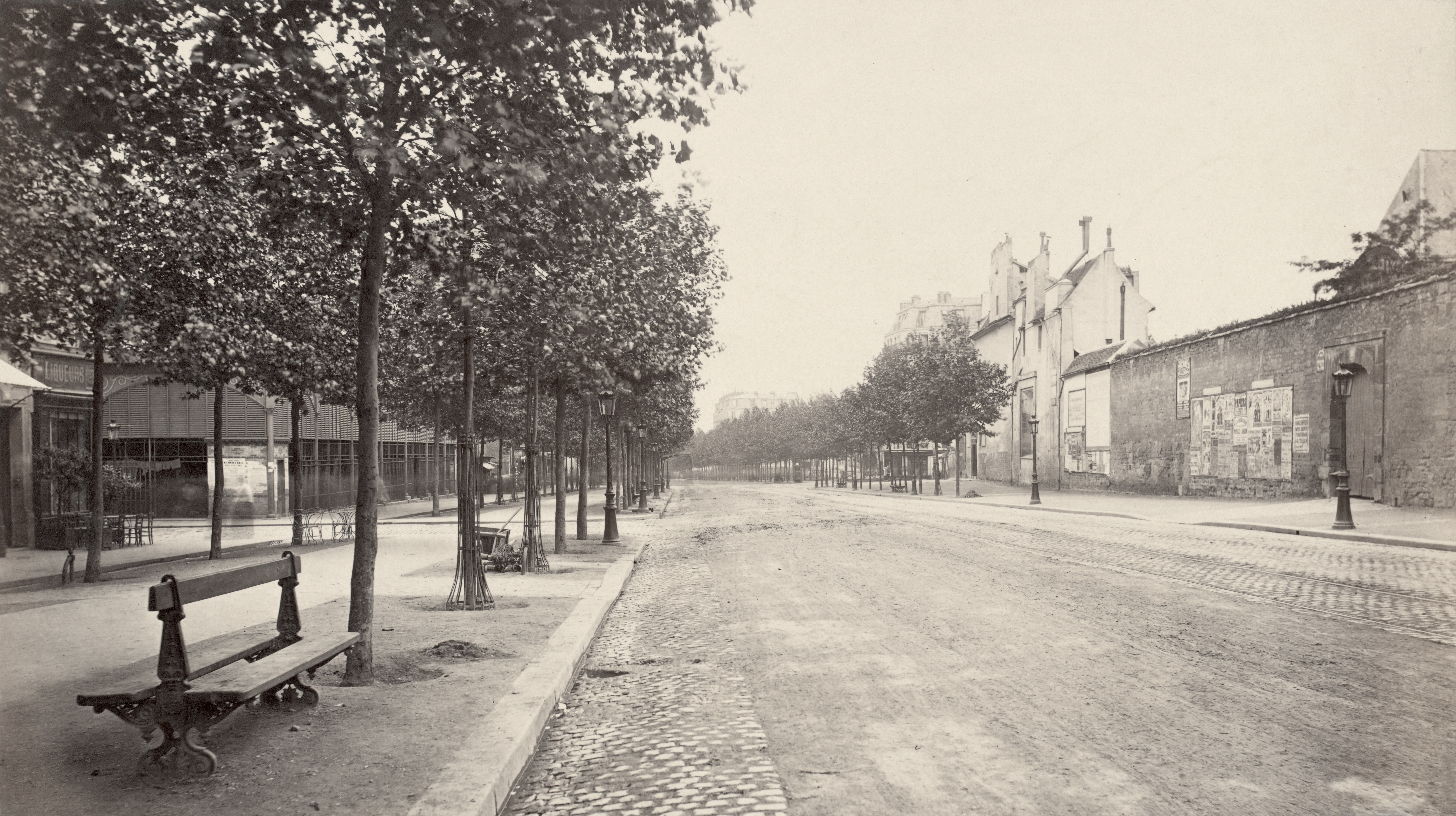 Looking along tree lined street with bench seat in foreground.